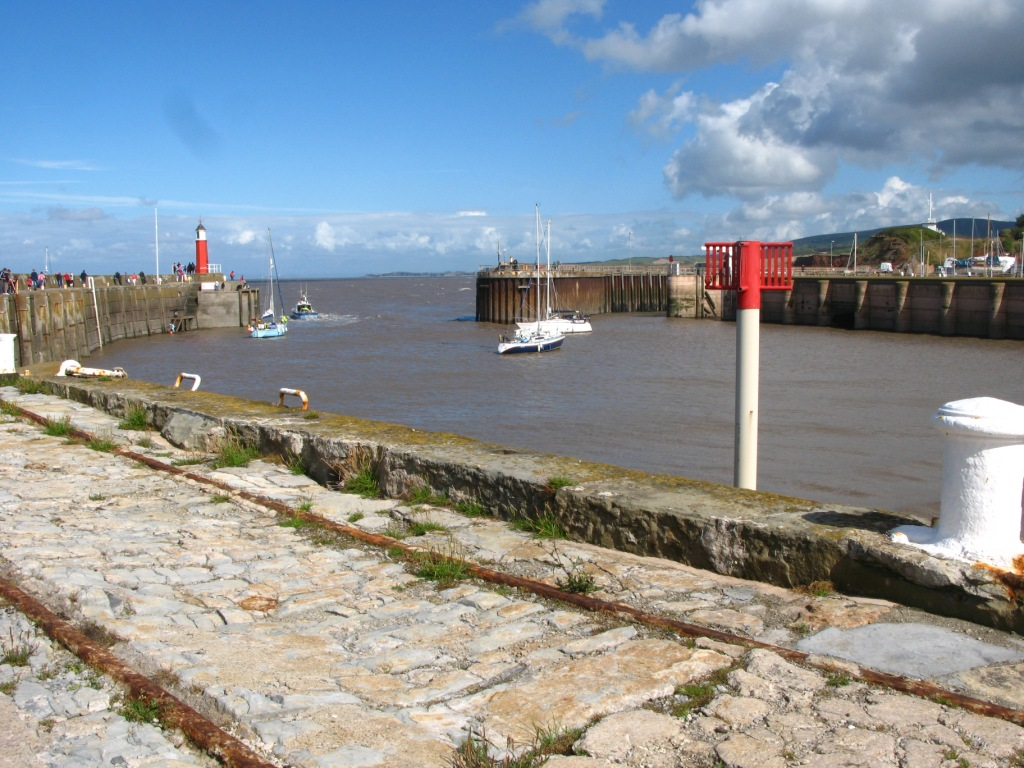 These rails on the quay at Watchet are the remain sof the West Somerset Mineral Railway which used to ship iron ore mined in the hills behind the town across the Severn Estuary to south Wales.